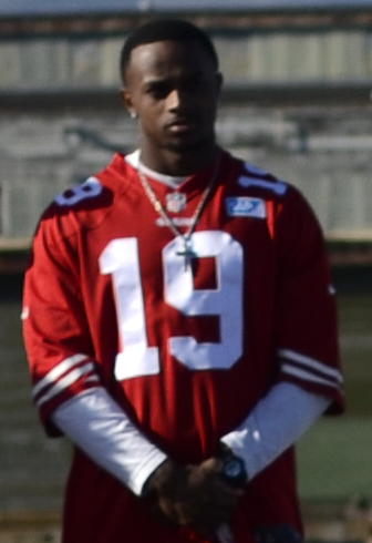 151005-N-RU841-004 SAN FRANCISCO (October 5, 2015) – San Francisco 49ers football player Torrey Smith speaks to the crew and guests of USS Somerset (LPD 25) during a ceremony held aboard as a part of San Francisco Fleet Week. Smith along with other 49ers players gave a football demonstration while signing autographs and taking pictures with fans, then took the opportunity to witness future service members take the oath of enlistment followed by a Marine Corps promotion ceremony. (U.S. Navy photo by Chief Mass Communication Specialist Mark R. Alvarez/Released)